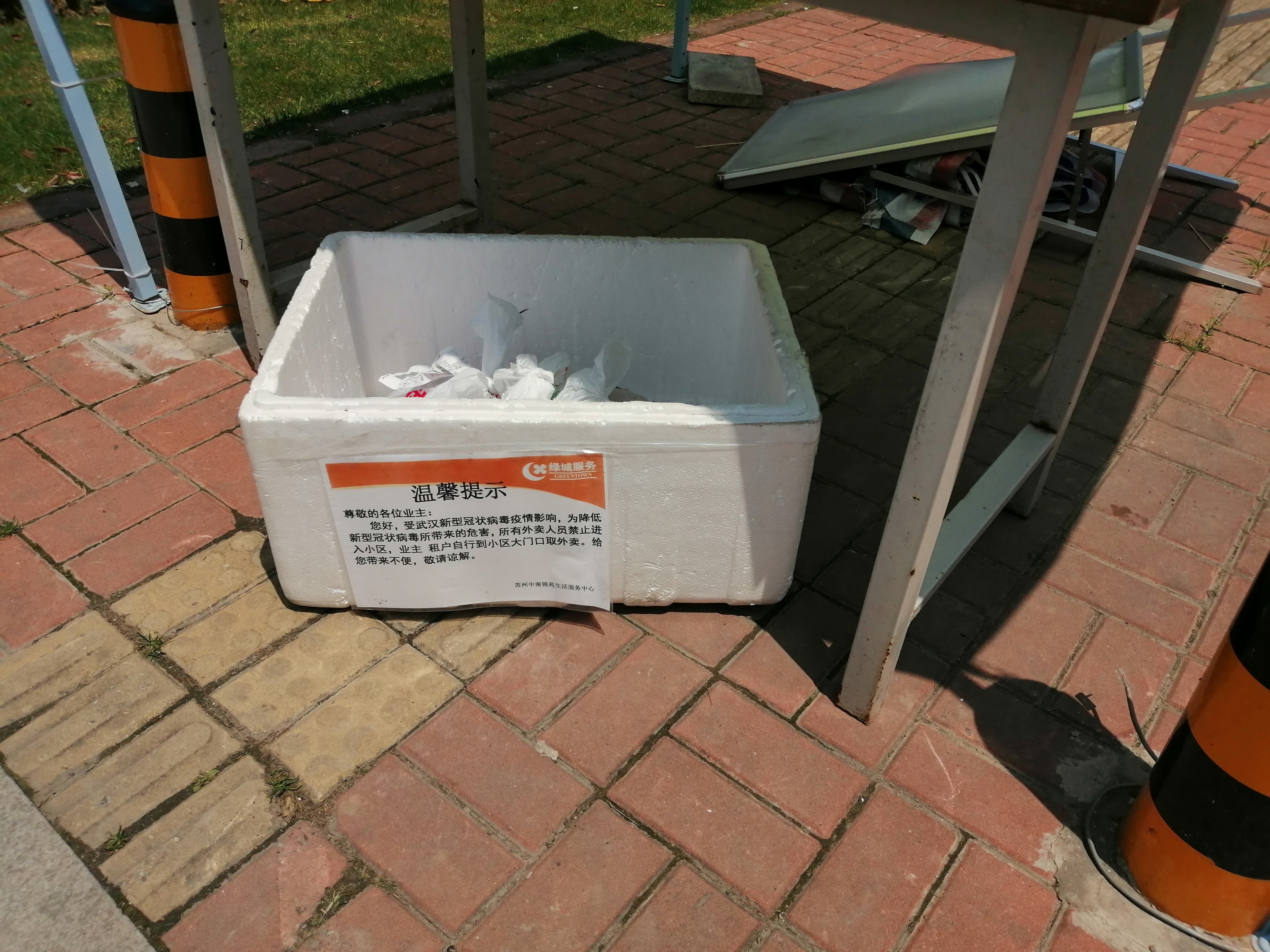 Does this violate the guidelines by the WHO?